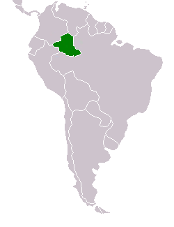 A map of America Latina with Palombia, a fictionnal country, in green.